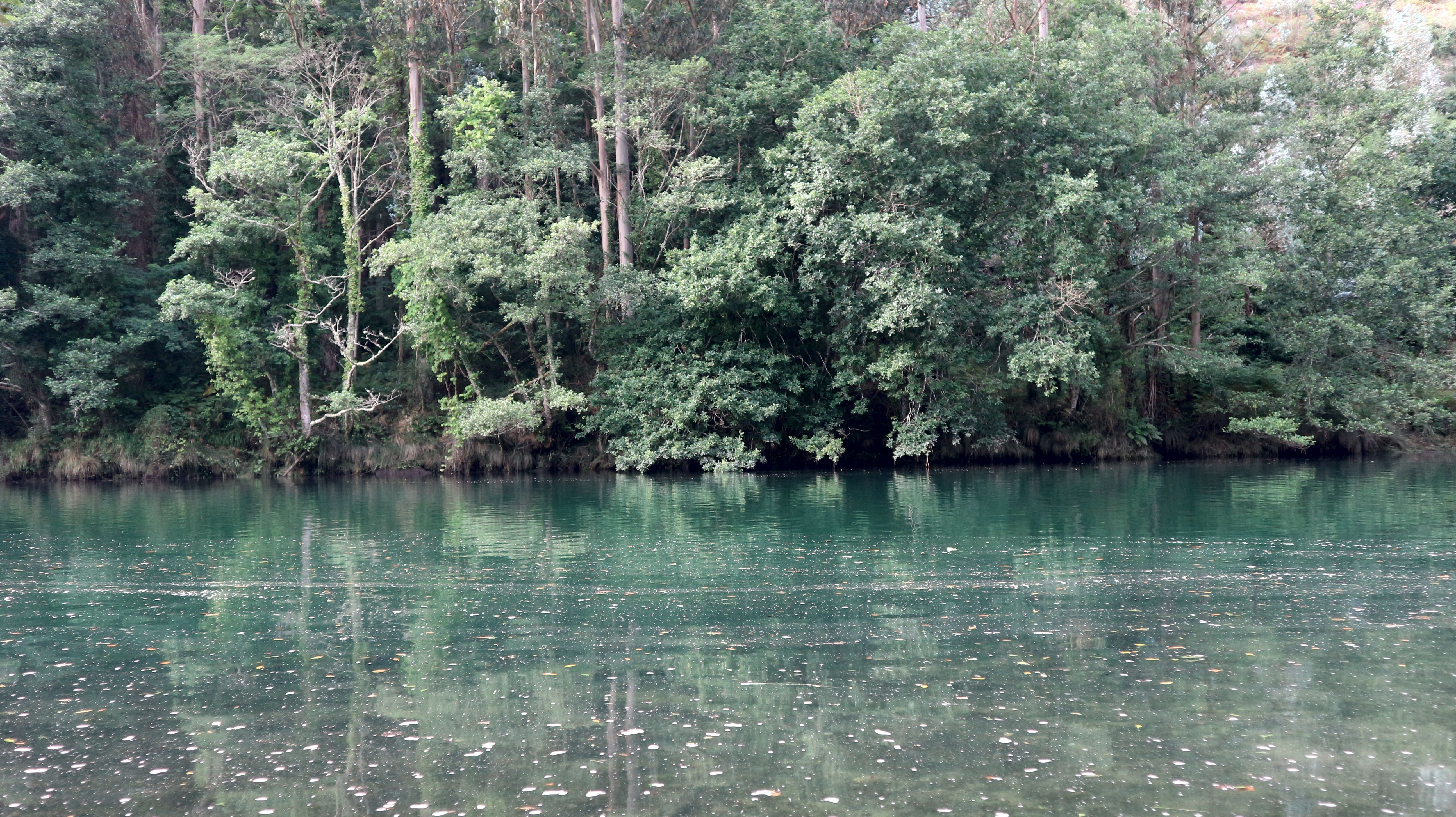 Natural Park Fragas do Eume (A Coruña, Galicia). Eume river from Chao de Ombre (Pontedeume) to (Taboada, Monfero).